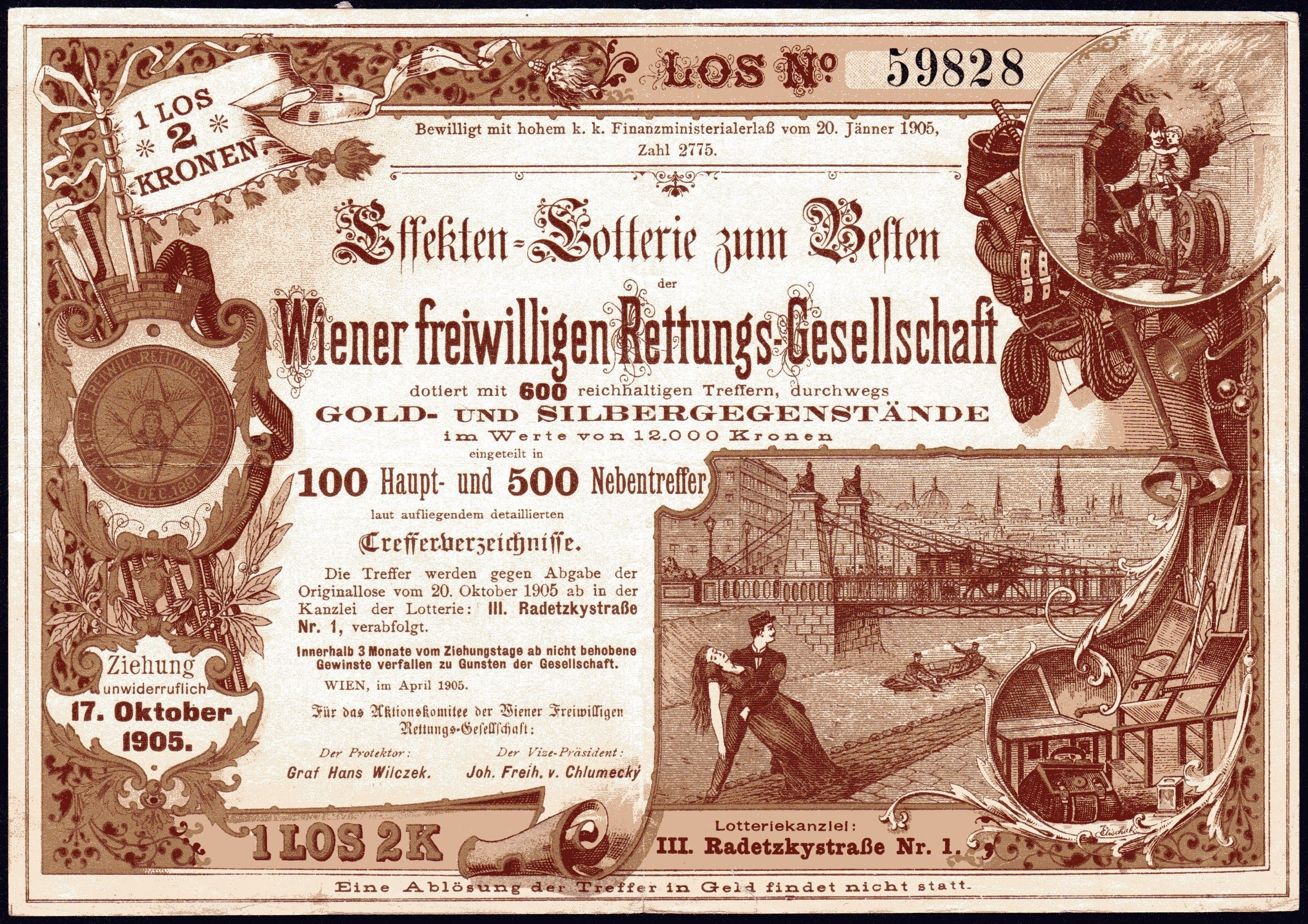 Lottery ticket of the Wiener Freiwillige Rettungsgesellschaft, issued April 1905